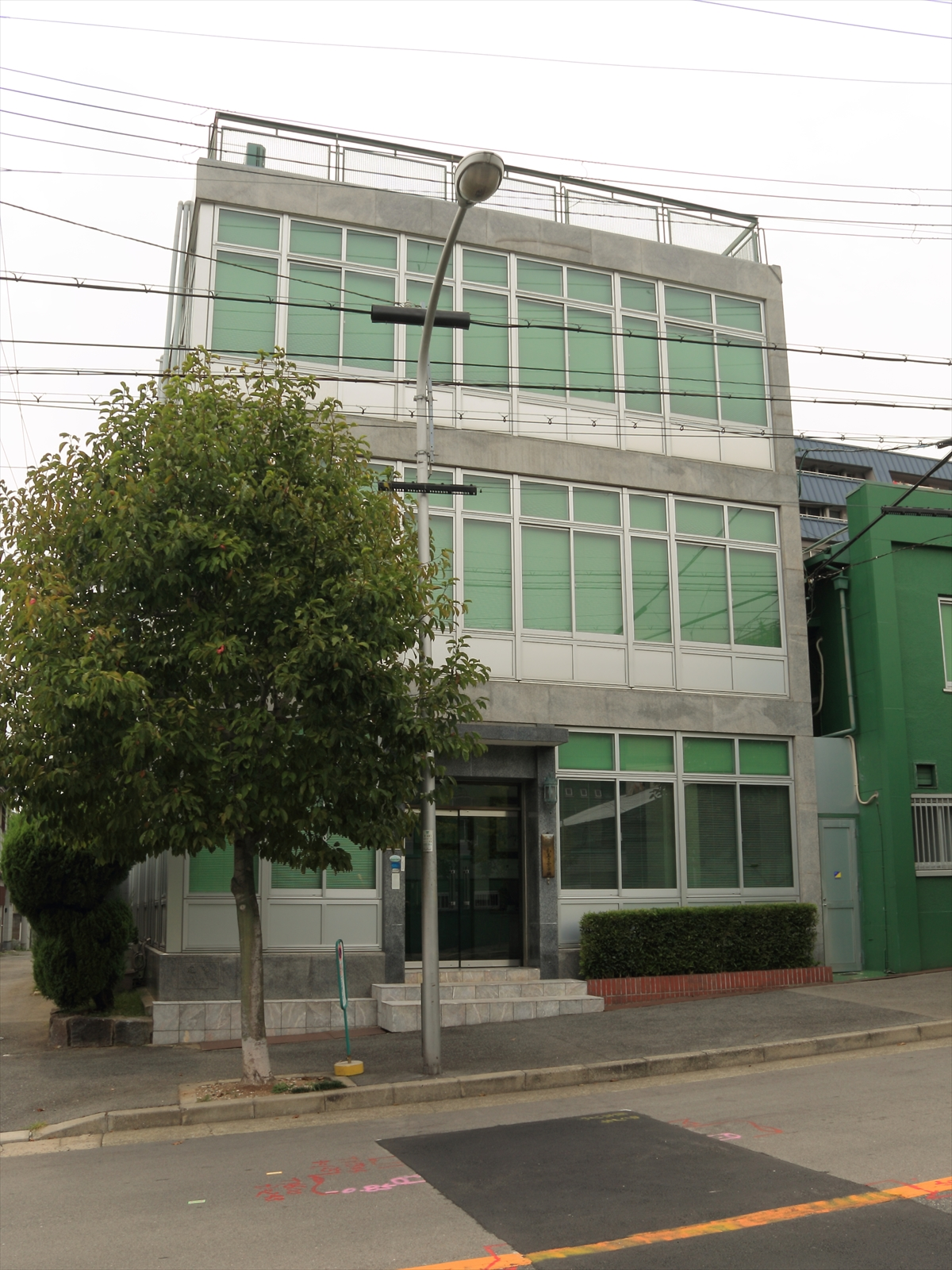 Headquarter of Kaminomoto Hompo (Pharmaceutical company of Japan). Kobe.